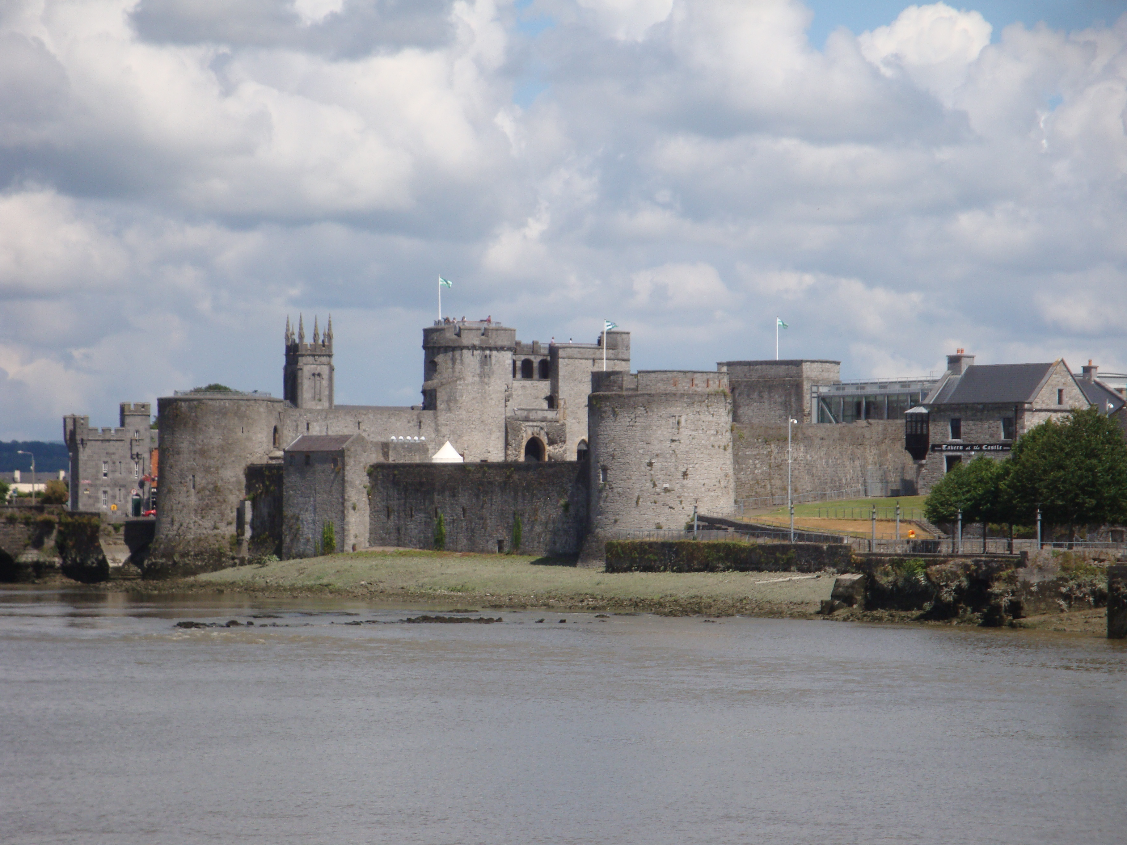 King John's Castle in Limerick